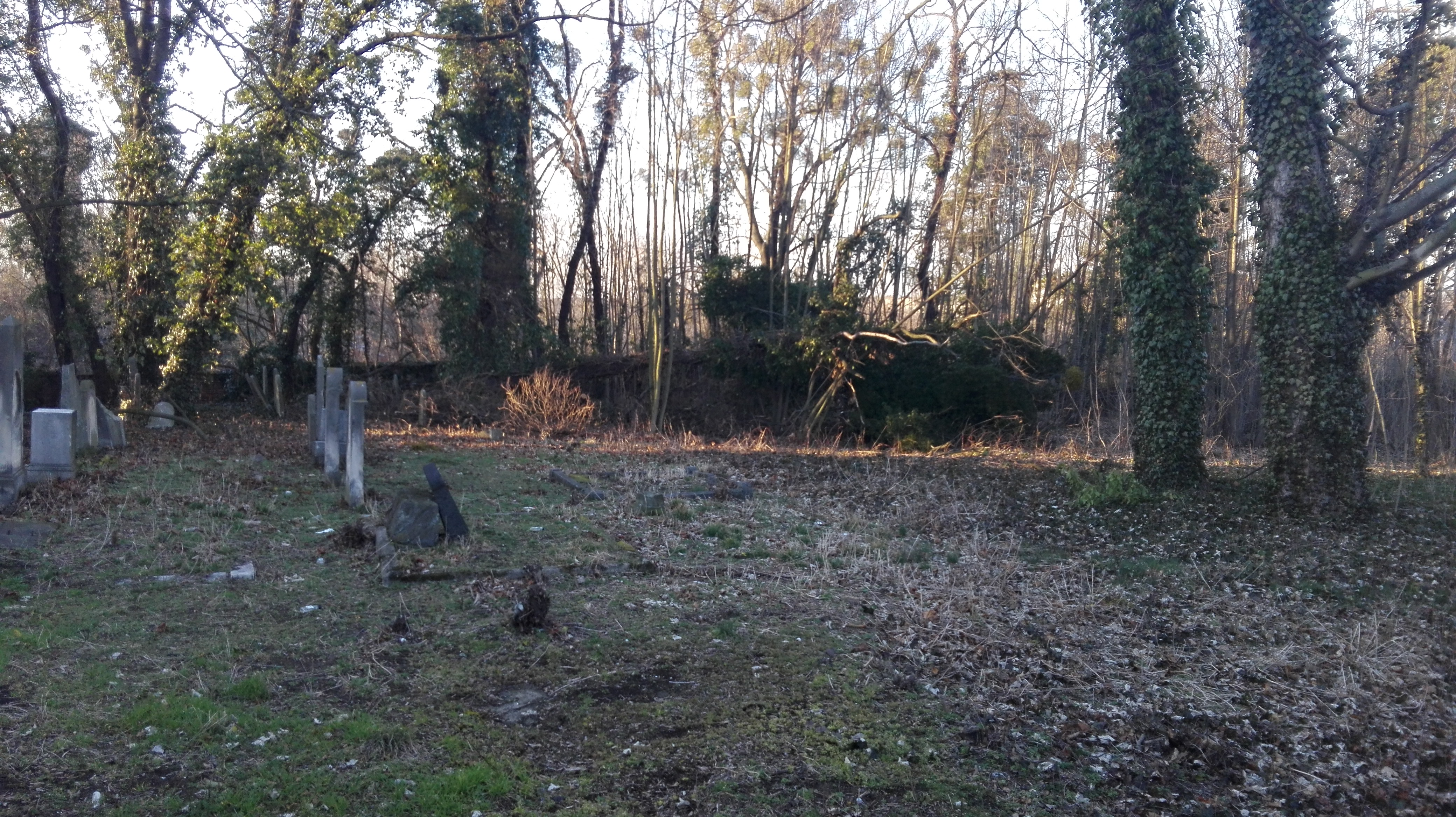 Jewish cemetery in Krapkowice, Poland. 12.1989.